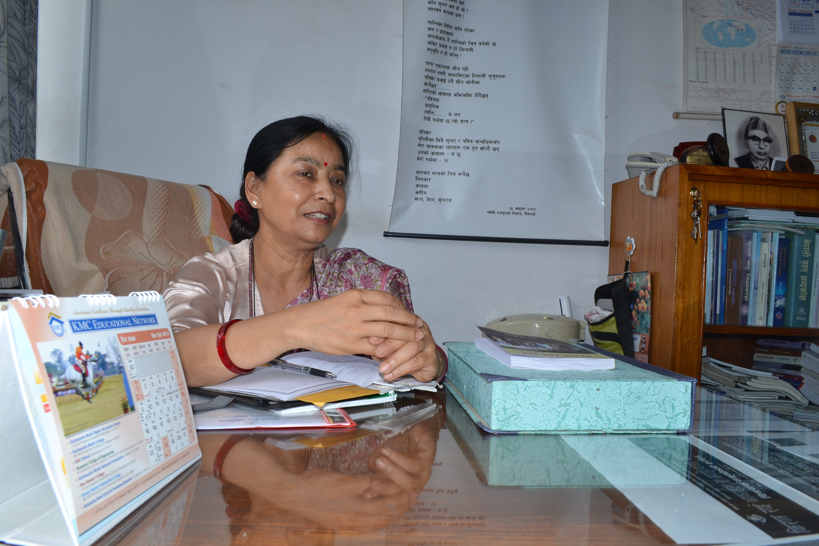 Sulochana manandhar at office